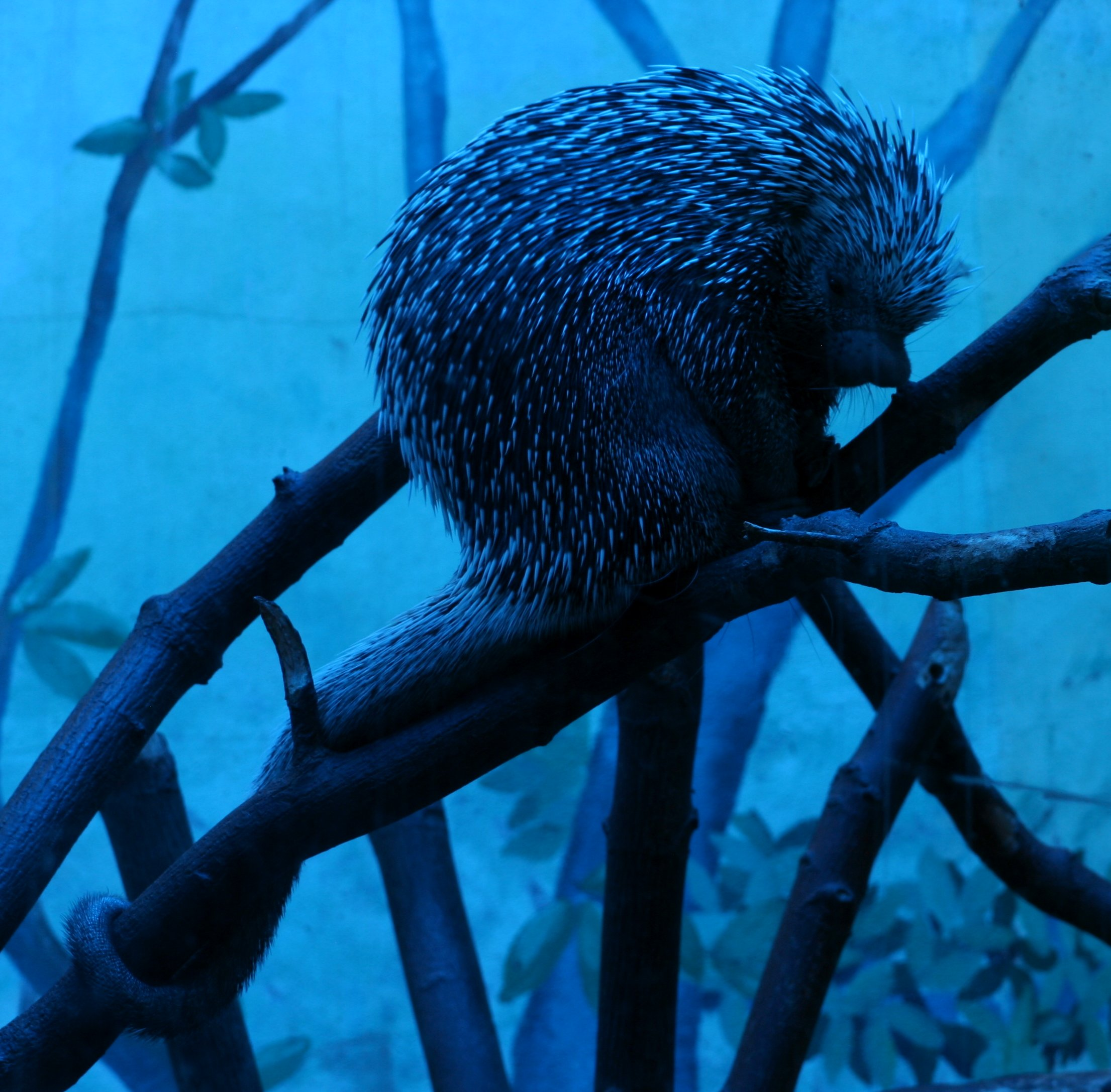 Brazilian Porcupine (Coendou prehensilis) at the Buffalo Zoo